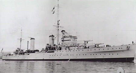 Photograph of HMS Galatea as completed, at Devonport, England.